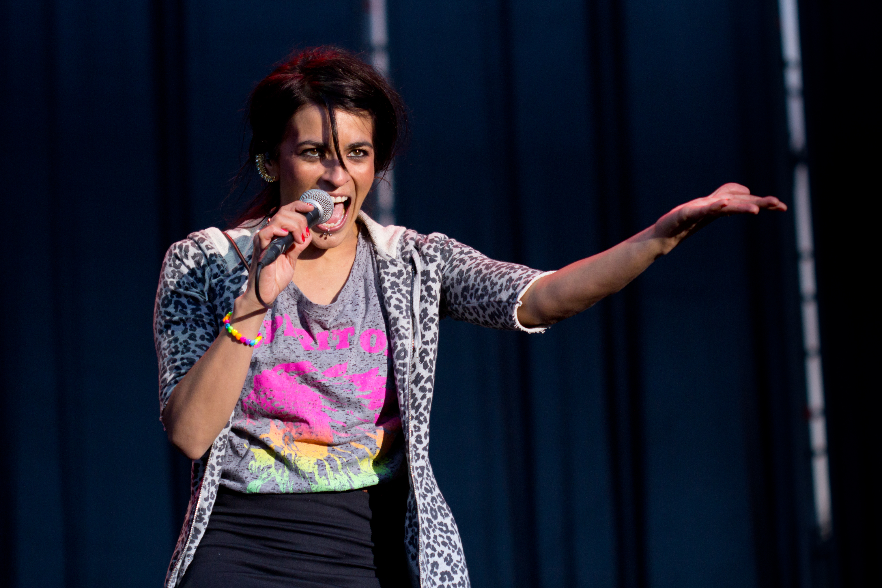 Spanish singer Bebe live at Músicos en la Naturaleza, Hoyos del Espino, Ávila, Spain.